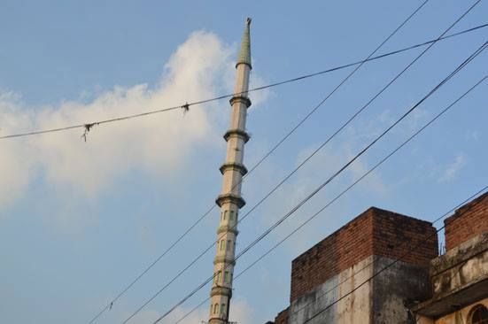 jama masjid area near sabji market araria